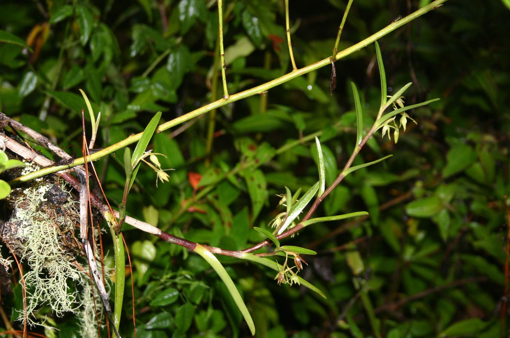 Epidendrum sp. in the wild on the Mexico-Guatemala border.